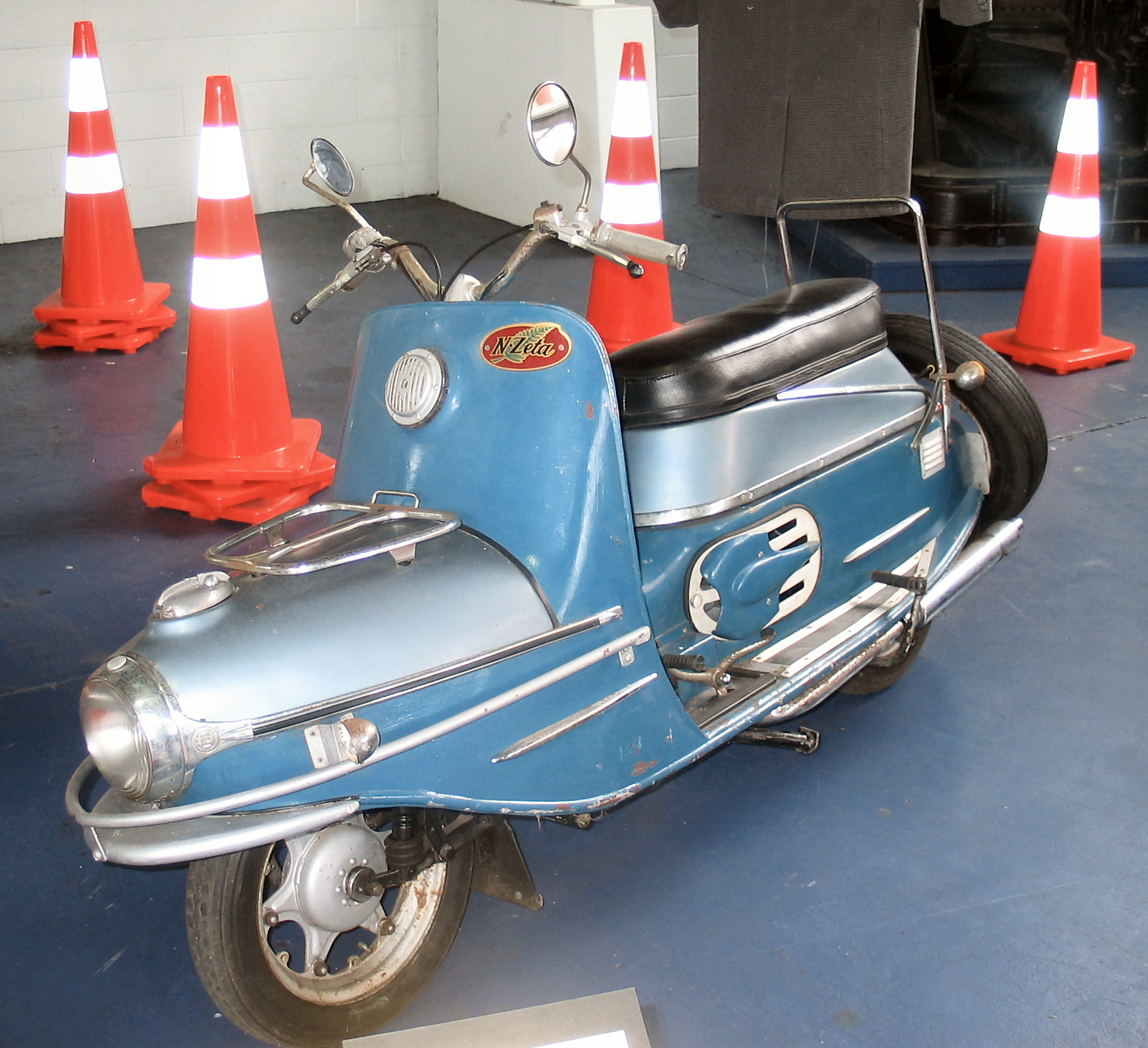 An N-Zeta scooter at the MOTAT museum in Auckland, New Zealand. N-Zeta was the New Zealand name given to the Čezeta.